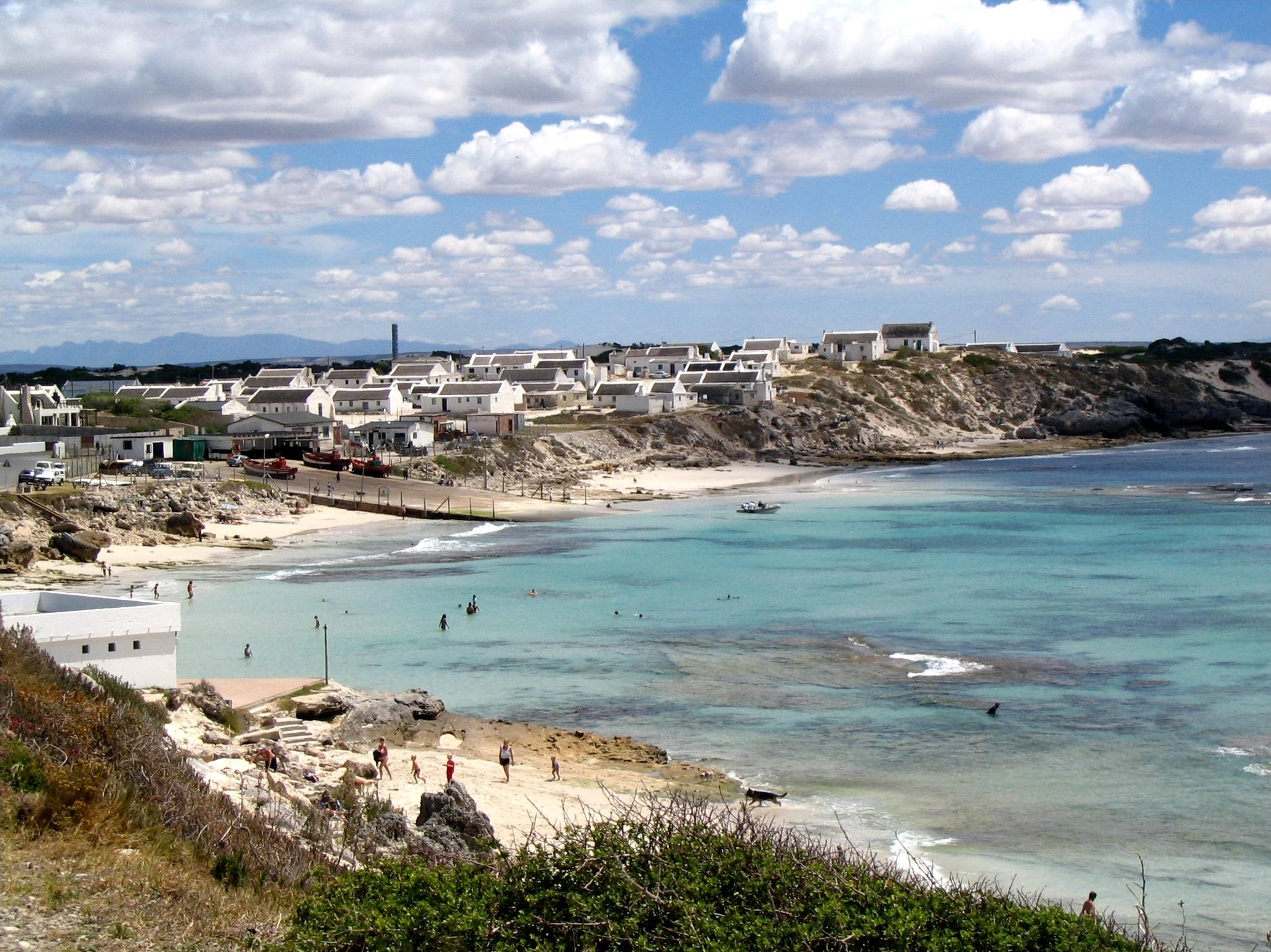 A view of Arniston Western Cape (or Waenhuiskrans), including fisherman houses on the coastline. Photo taken at Arniston, Western Cape, South Africa on 27 December, 2005.